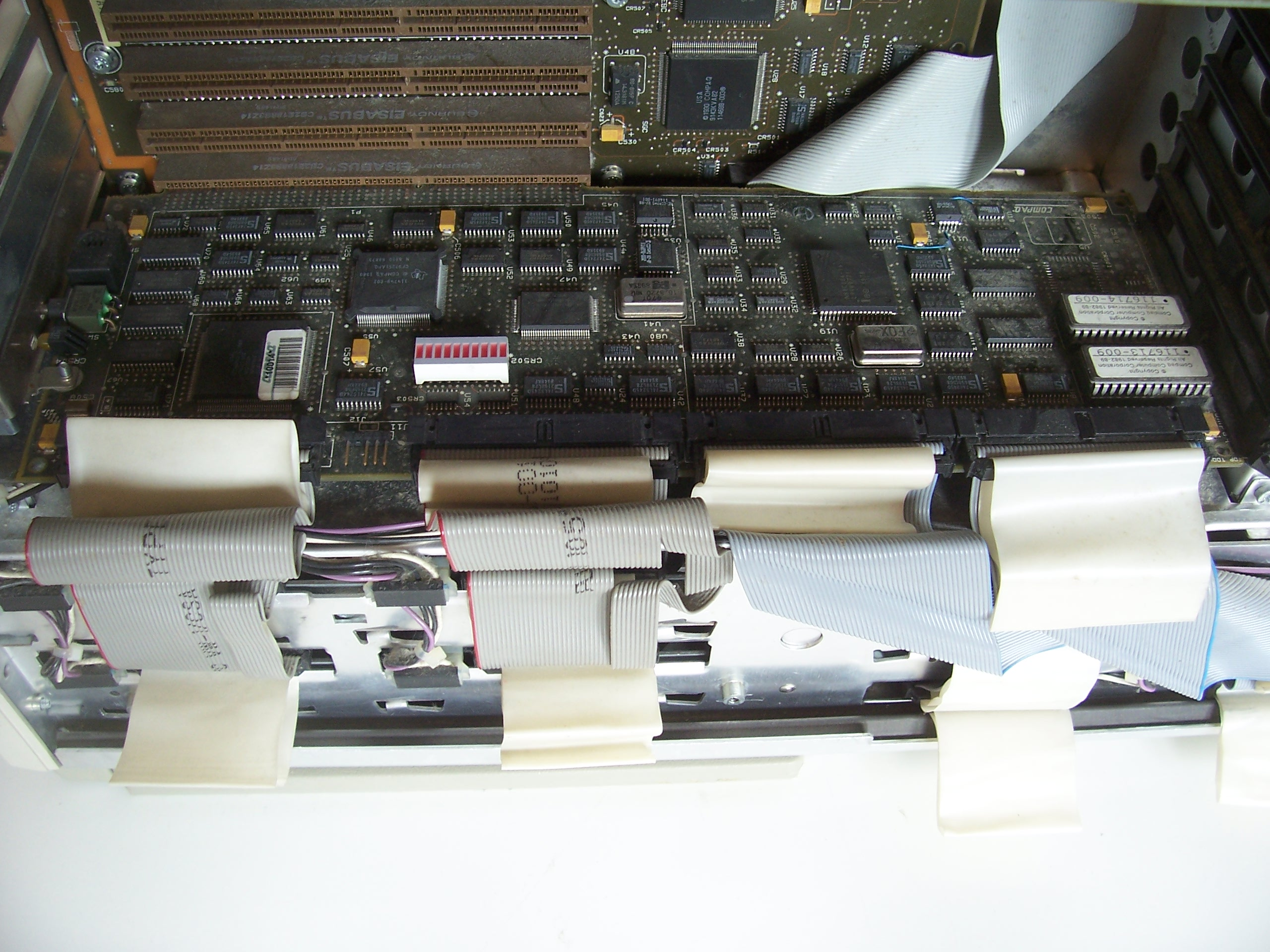 Compaq SystemPro Server, closeup of the RAID-Controller connected to 8 harddisks